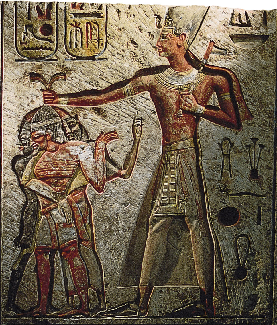 Ramses II and his prisoners